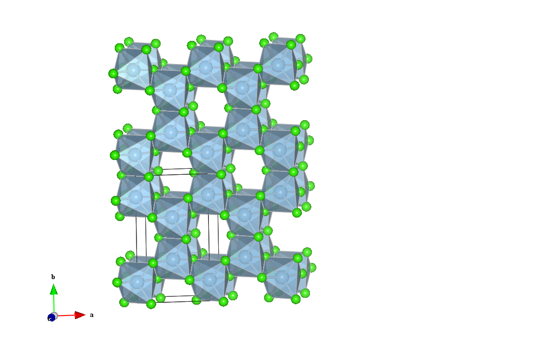 AlCl3 crystal structure, honeycomb view drawn using VESTA K. Momma and F. Izumi, "VESTA: a three-dimensional visualization system for electronic and structural analysis." J. Appl. Crystallogr., 41:653-658, 2008